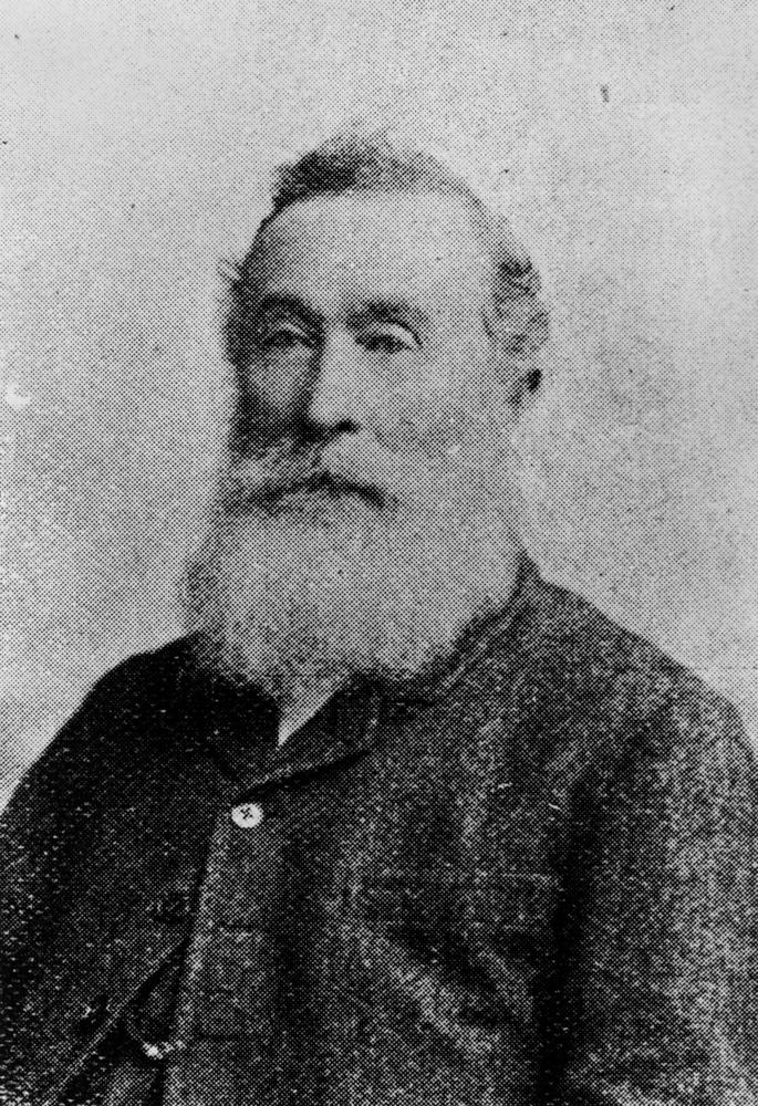 Councillor E. B. Southerden, the first Mayor of Sandgate, ca. 1901